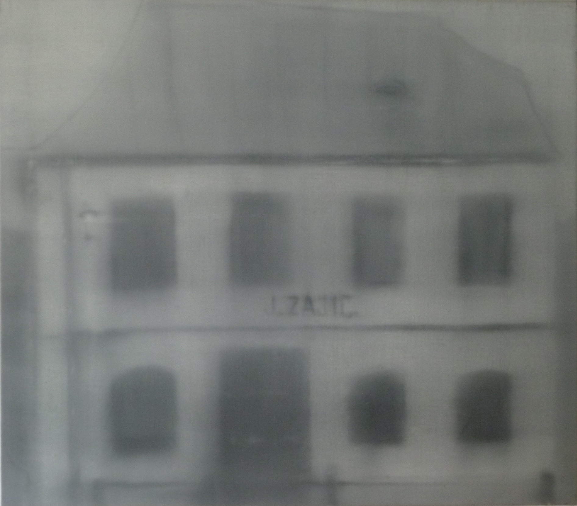 "A House in Freiberg" (Birthplace of Sigmund Freud) (1996), oil on canvas by the Belgian artist Xavier Tricot